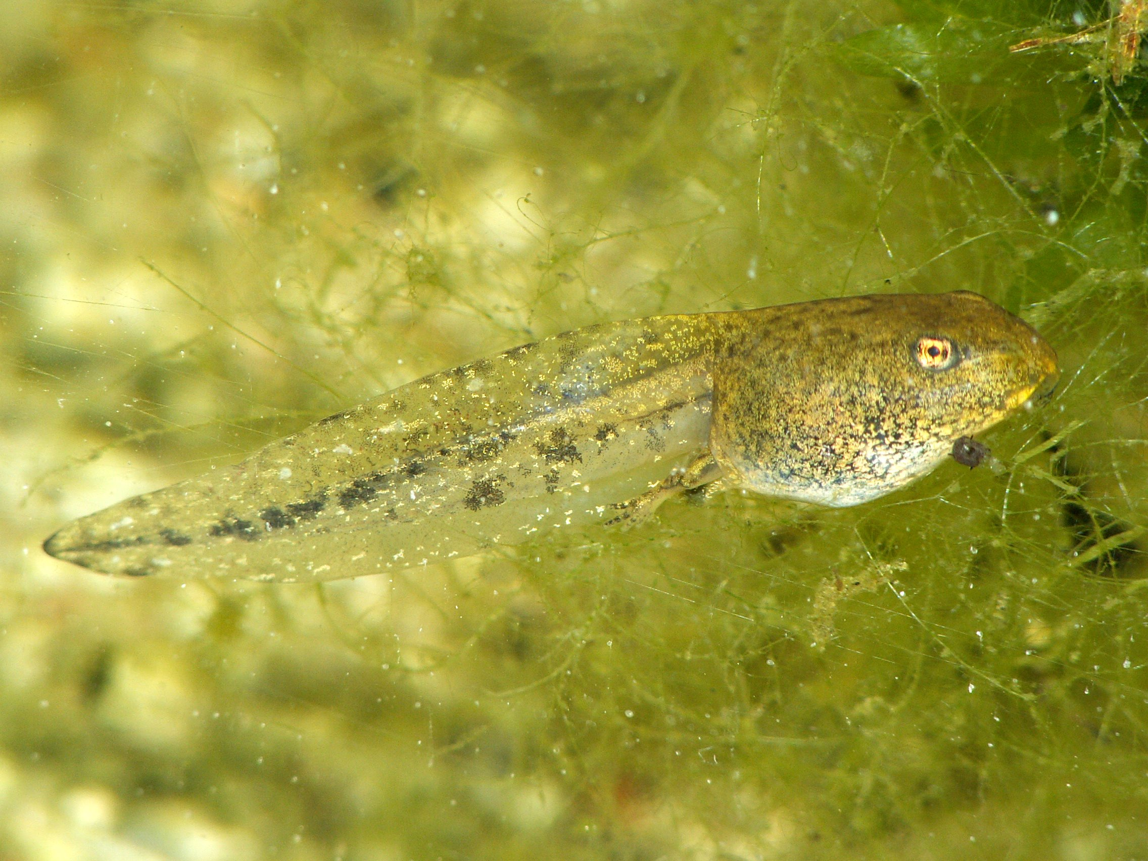 Tadpole of the common frog Rana temporaria just before metamorphosis